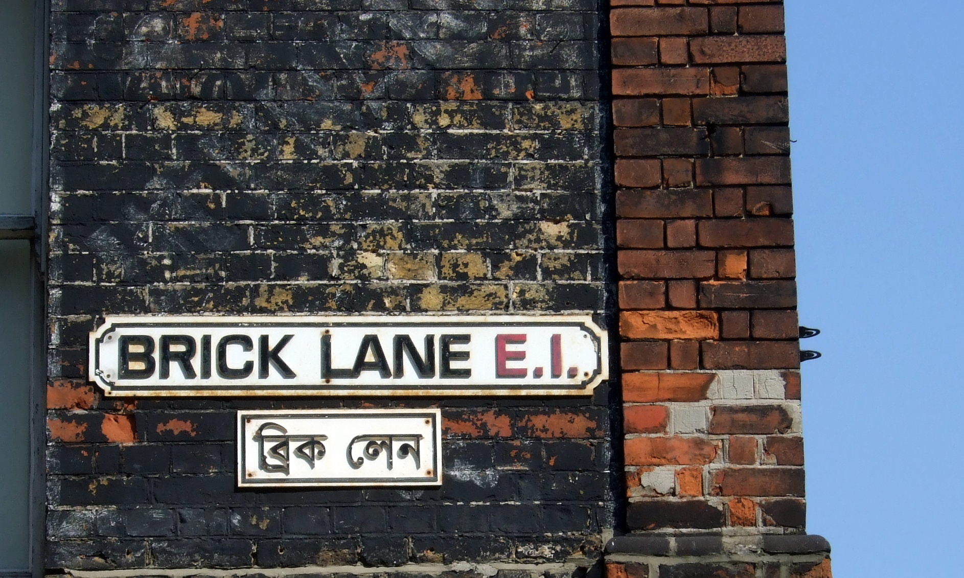 Street logo sign of Brick Lane in English and Bengali, in London.